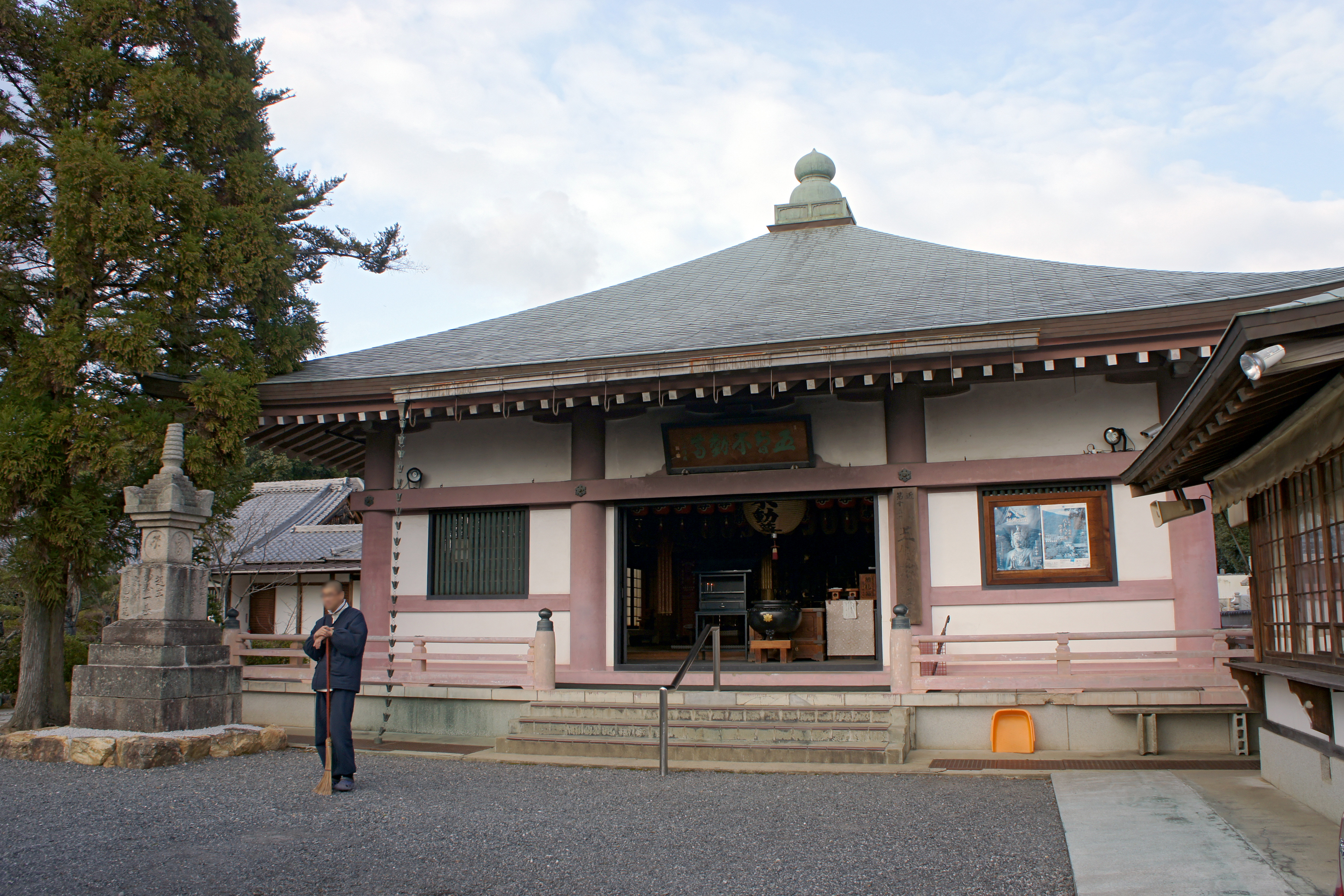 Renge-ji (North Garden) in Ukyō-ku, Kyoto, Kyoto Prefecture, Japan.